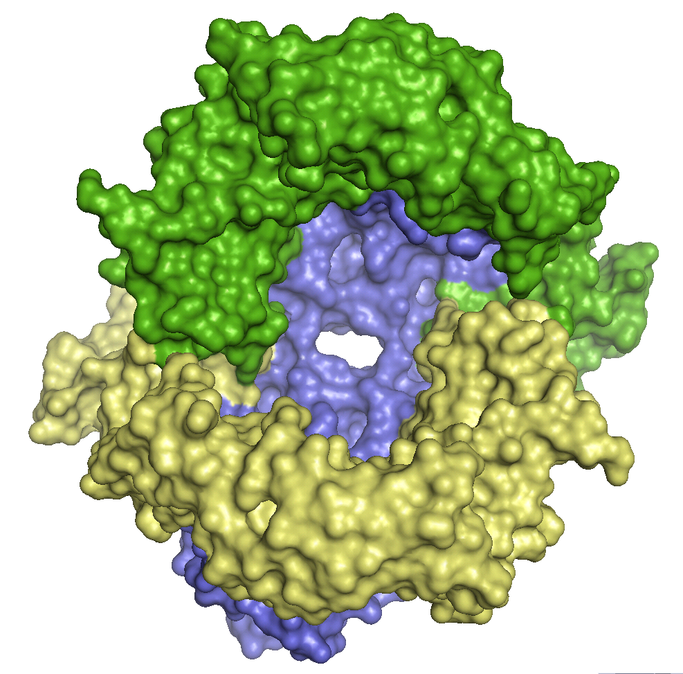 3d structure of streptokinase C+D (yellow+green) complexed with plasmin (blue) after PDB 1BML. Ref.: X.Wang et al. (1998). Crystal structure of the catalytic domain of human plasmin complexed with streptokinase.. Science, 281, 1662-1665. PMID 9733510 [